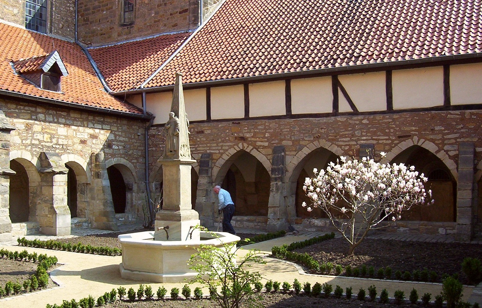 Hildesheim, St. Mauritius, Cloister